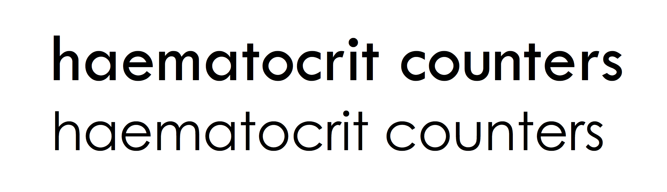 Two similar fonts with very different structures: Twentieth Century (above) has features for smaller text such as loose spacing and a solid stroke weight, Century Gothic (below) wider characters, finer structure, less variation in stroke width and tighter spacing.